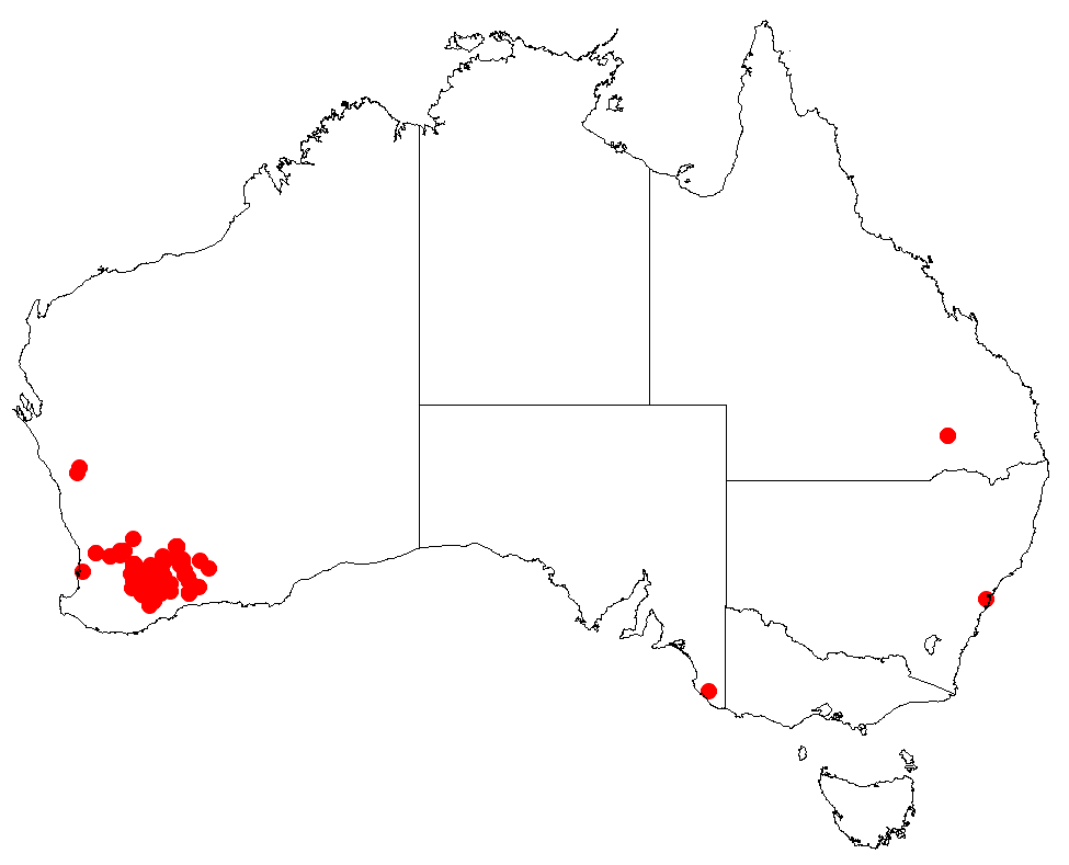 Hakea subsulcata Occurrence data downloaded from Australasian Virtual Herbarium on 22 November 2018 using